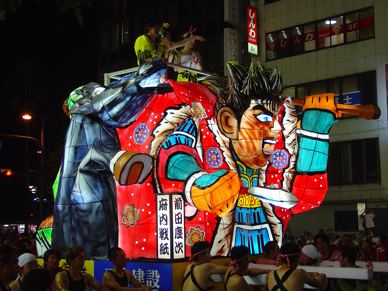 Funai-Pacchin.(Oita City, Oita Prefecture, Japan)